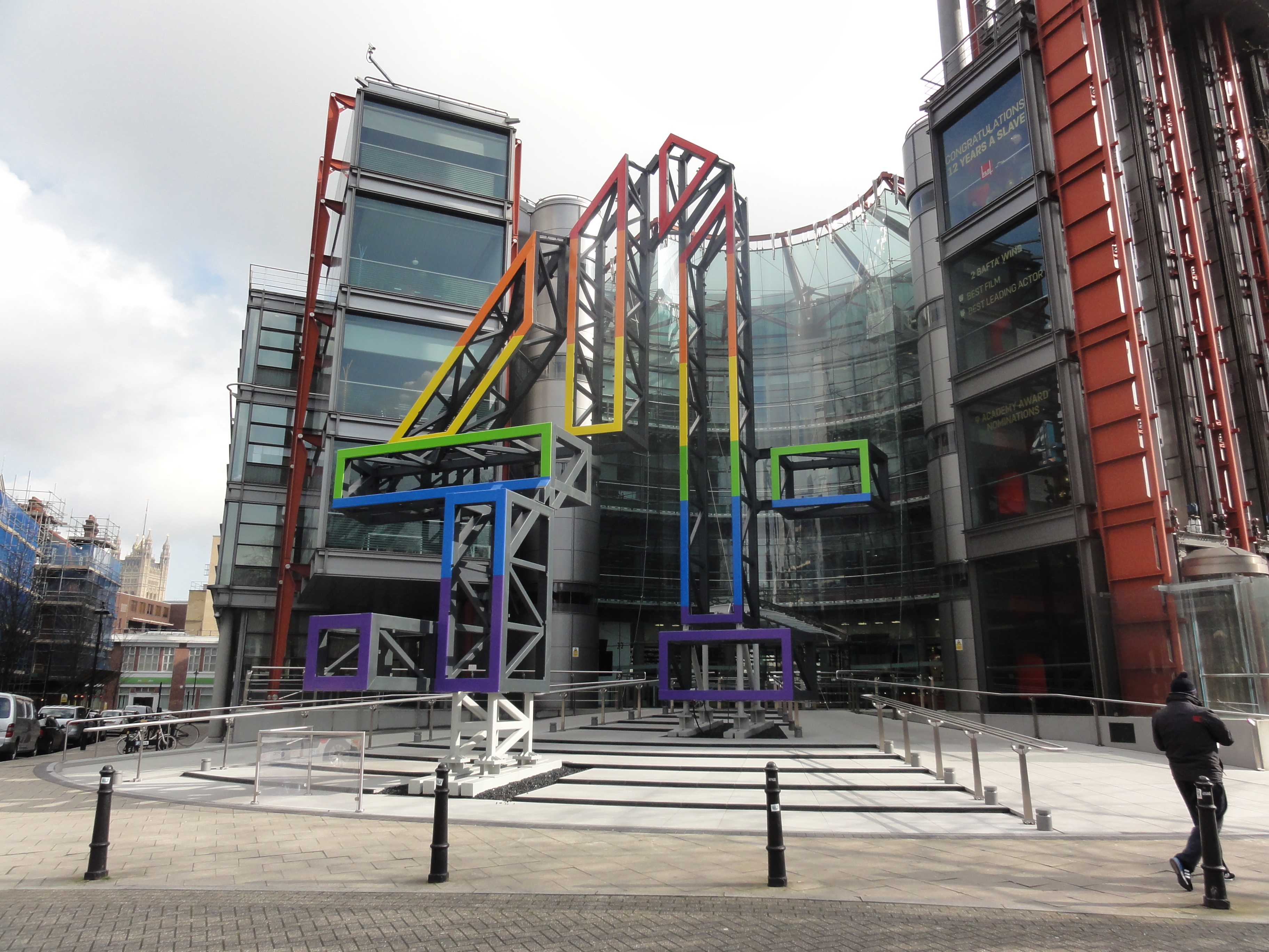 The Channel 4 offices in Horseferry Road, City of Westminster.